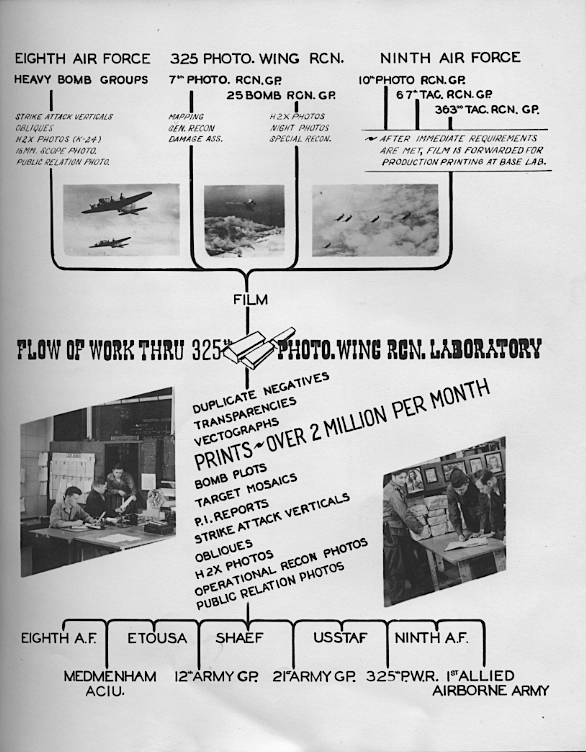 A plan of work taken from the inside page of the 325th unit yearbook, published in 1944.